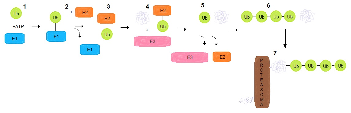 Basic scheme of the ubiquitylation/ubiquitination process.